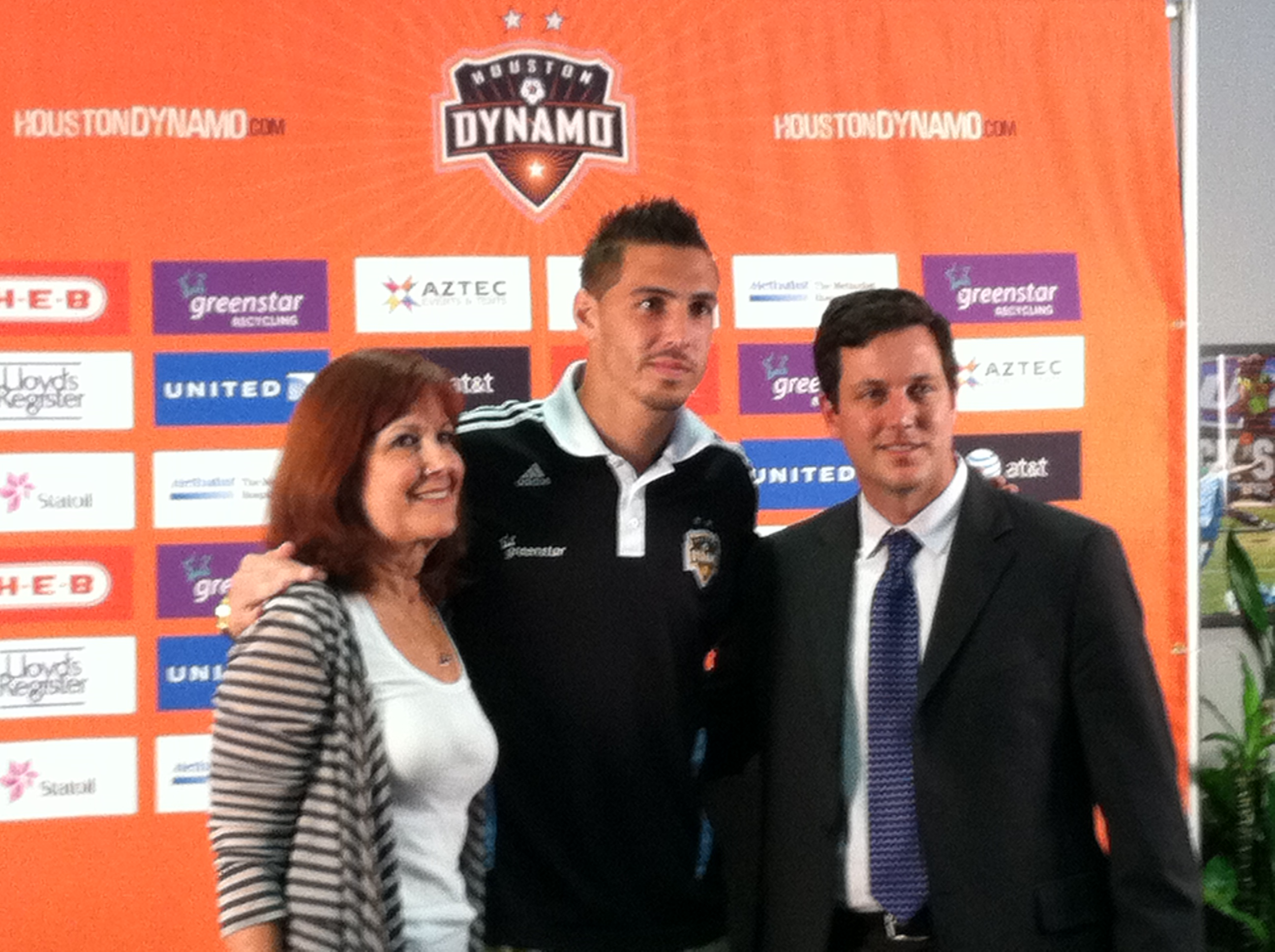 The Houston Dynamo held a press conference for the announcement of the 20 for 20 campaign, a series of charitable efforts with a goal to raise a total of $20,000 for the Fisher House and Ronald McDonald House of Houston. From L to R: Mikki Donnelly (Director of Development, Ronald McDonald House Houston), Geoff Cameron (former Houston Dynamo player who wore #20 jersey), Chris Canetti (President of Business Operations, Houston Dynamo)